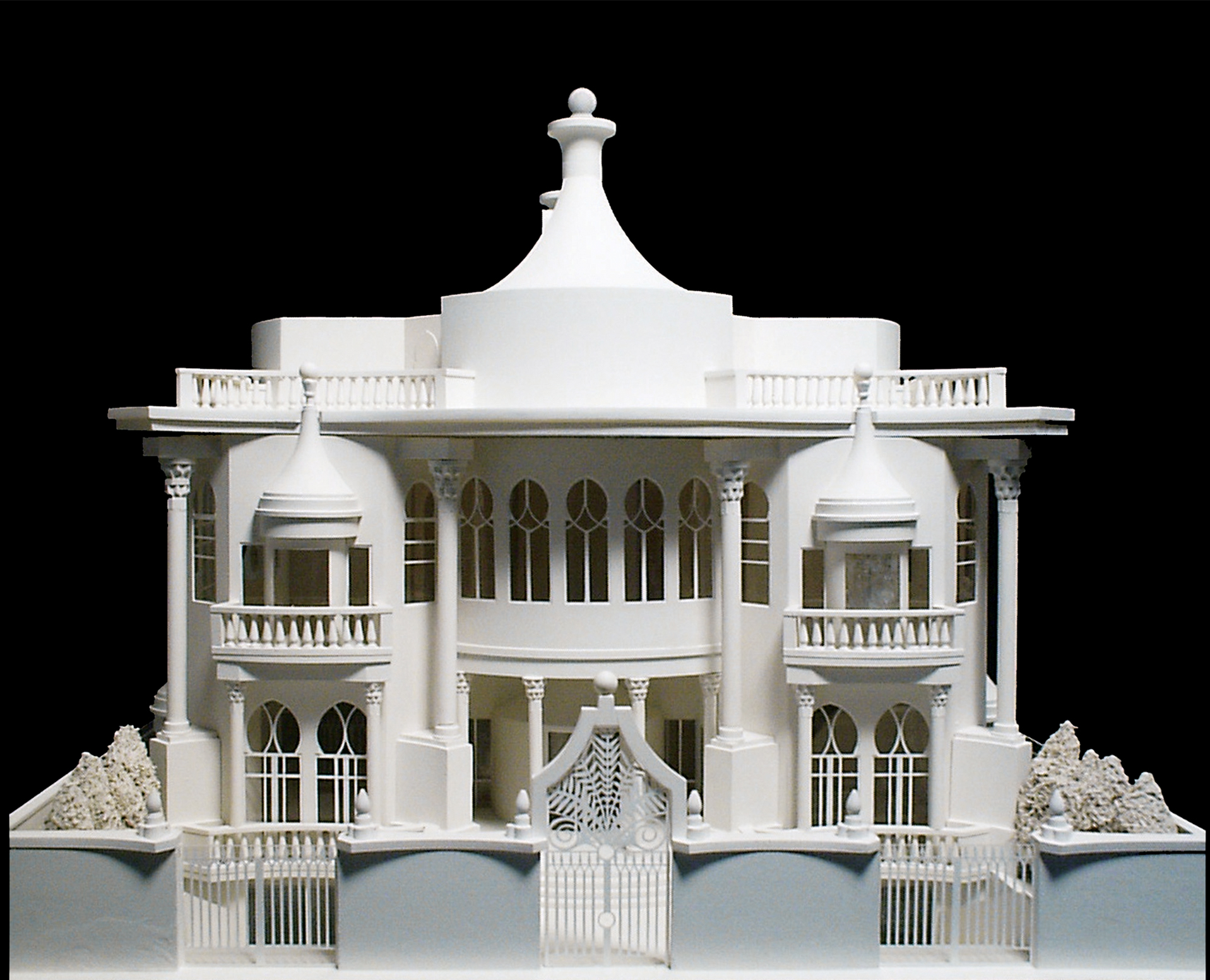 'Arab Nouveau' villa in Kuwait designed by Dr. Basil Al Bayati in 1999